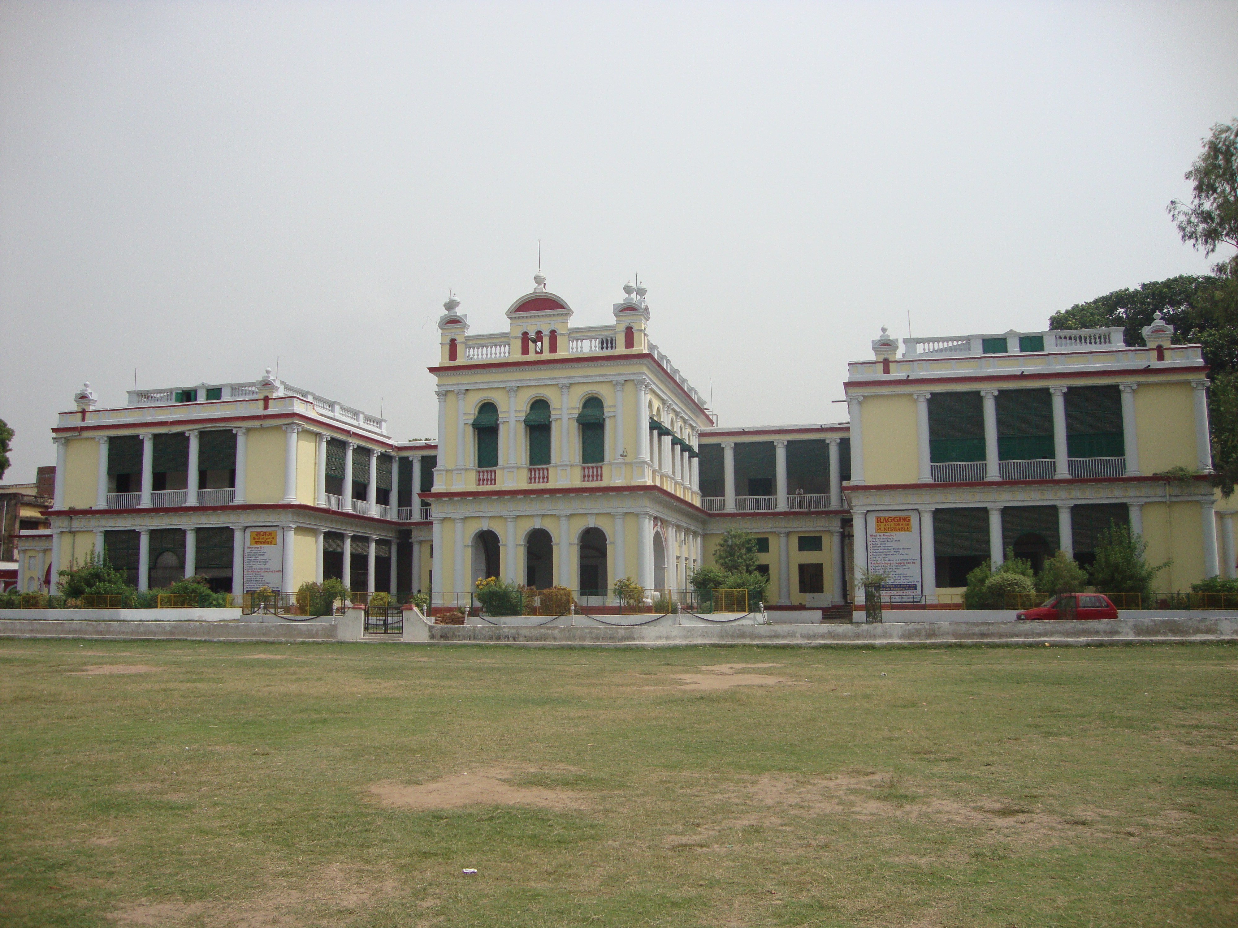 This is a photo of the Administrative Building of Patna College.